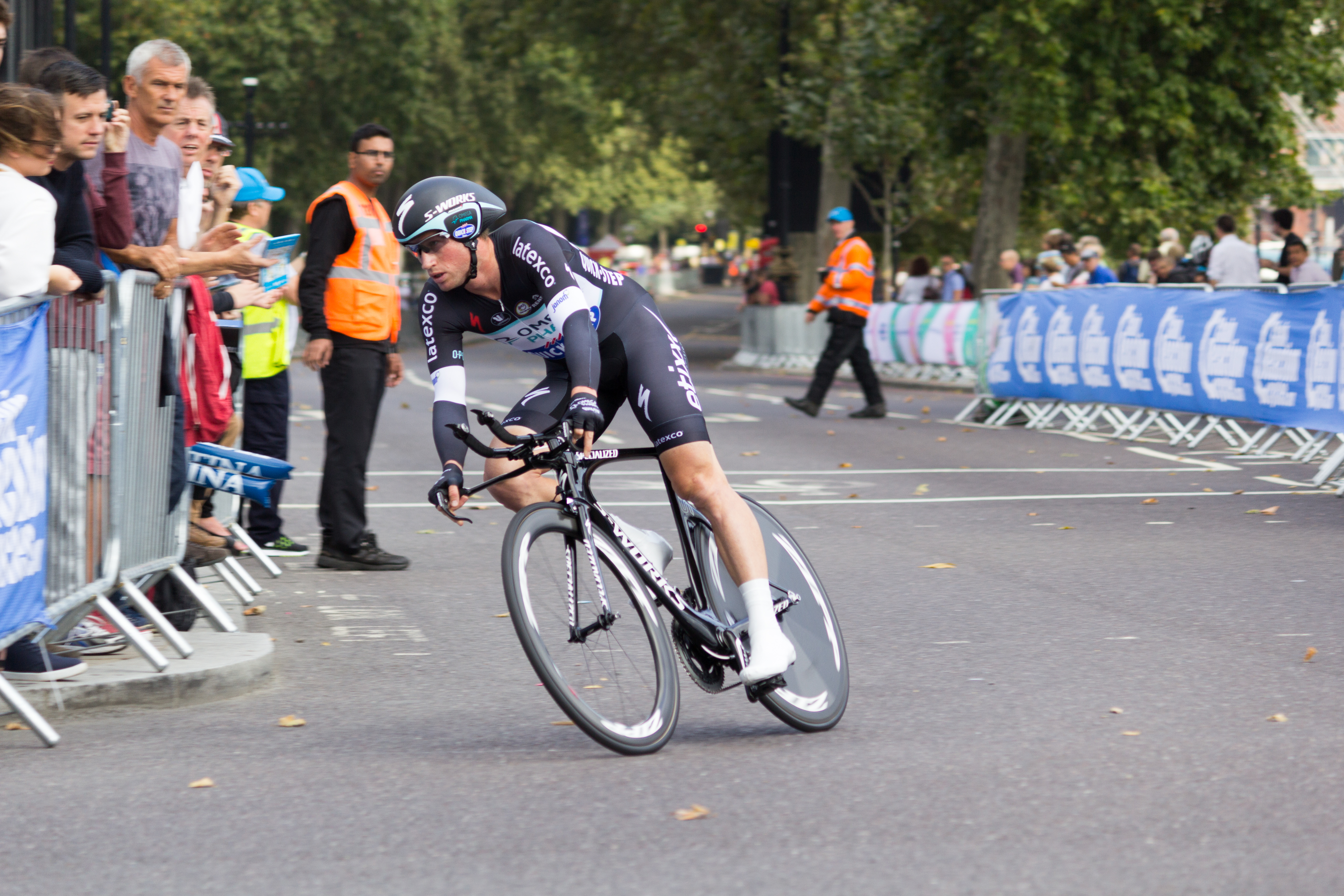 Tour of Britain 2014 stage 8a - London time trial